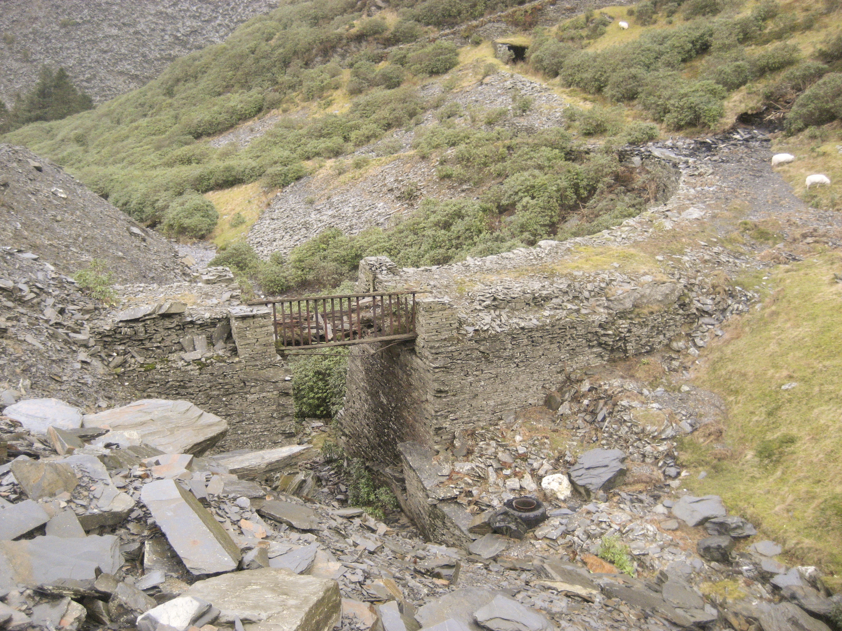 Slate tipping tramway at Maenofferen quarry, Blaenau Ffestiniog, Wales